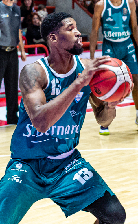 Kevarrius Hayes